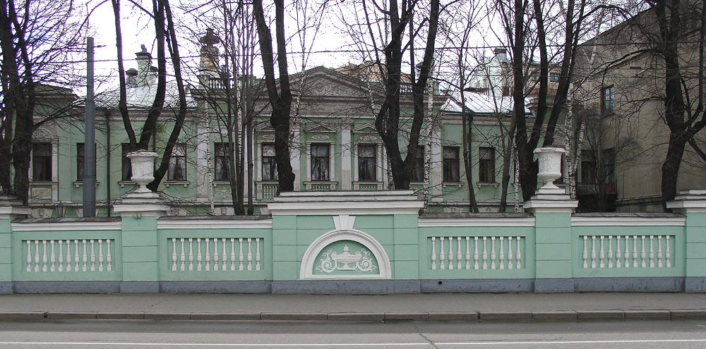 Konshina House, by Anatoly Gunst, 1908-1910, 16 Prechistenka Street